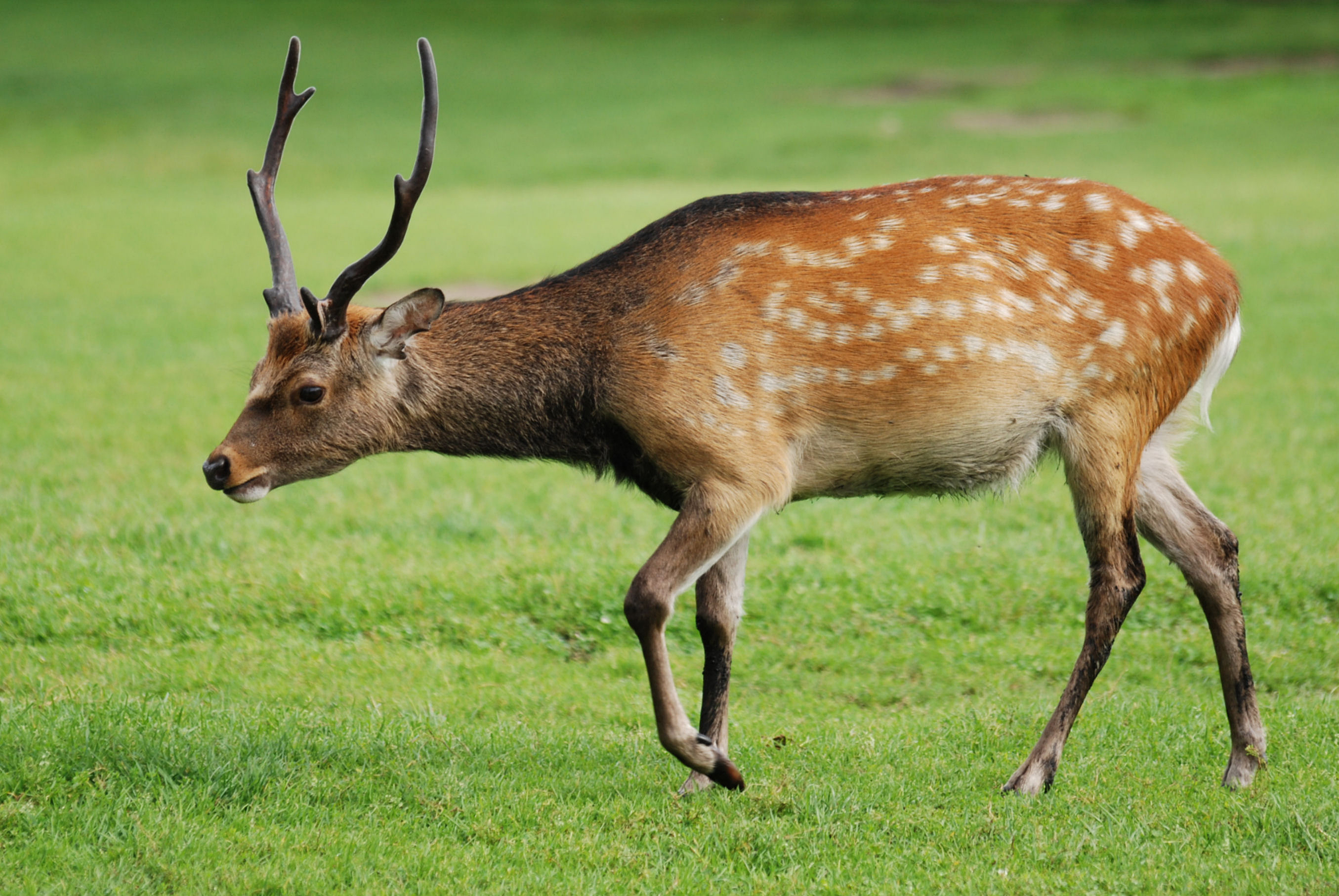 Sika Deer (Cervus nipal) in Kadzidłowo, Poland.